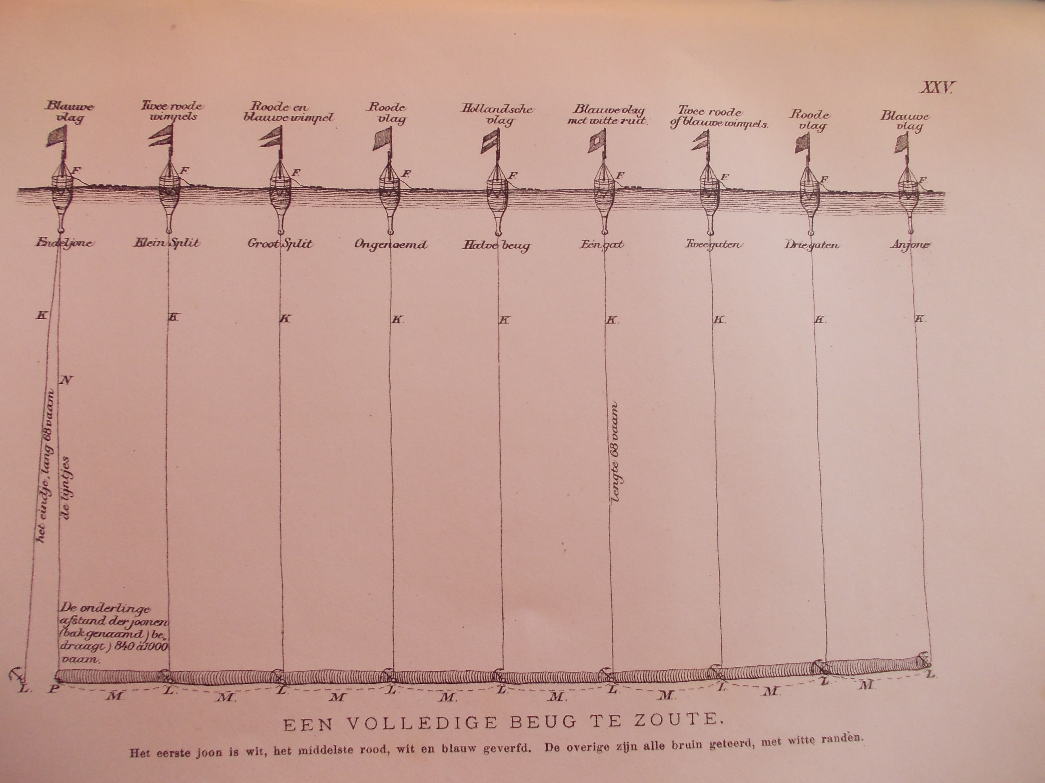 material for special way of fishing